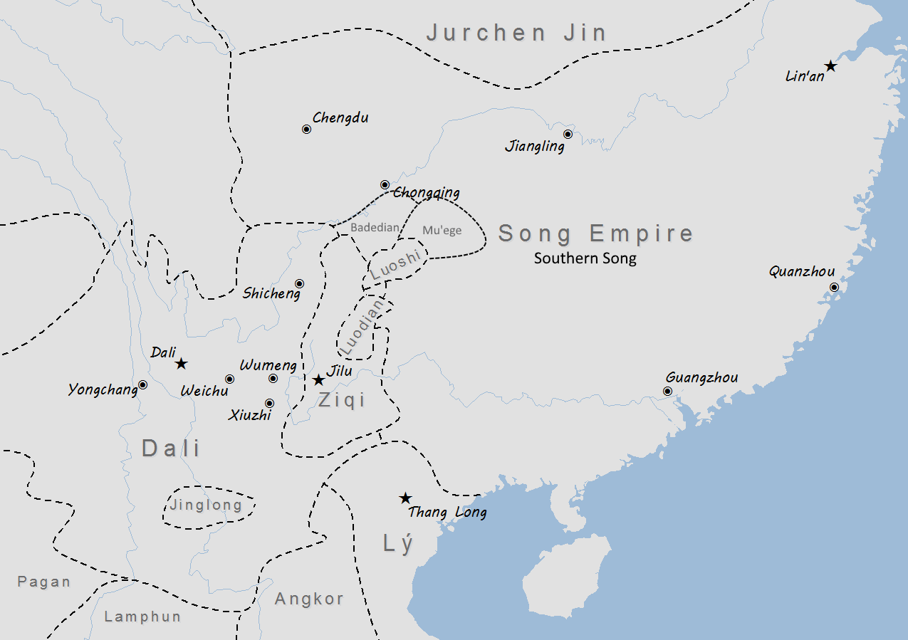 Ssong